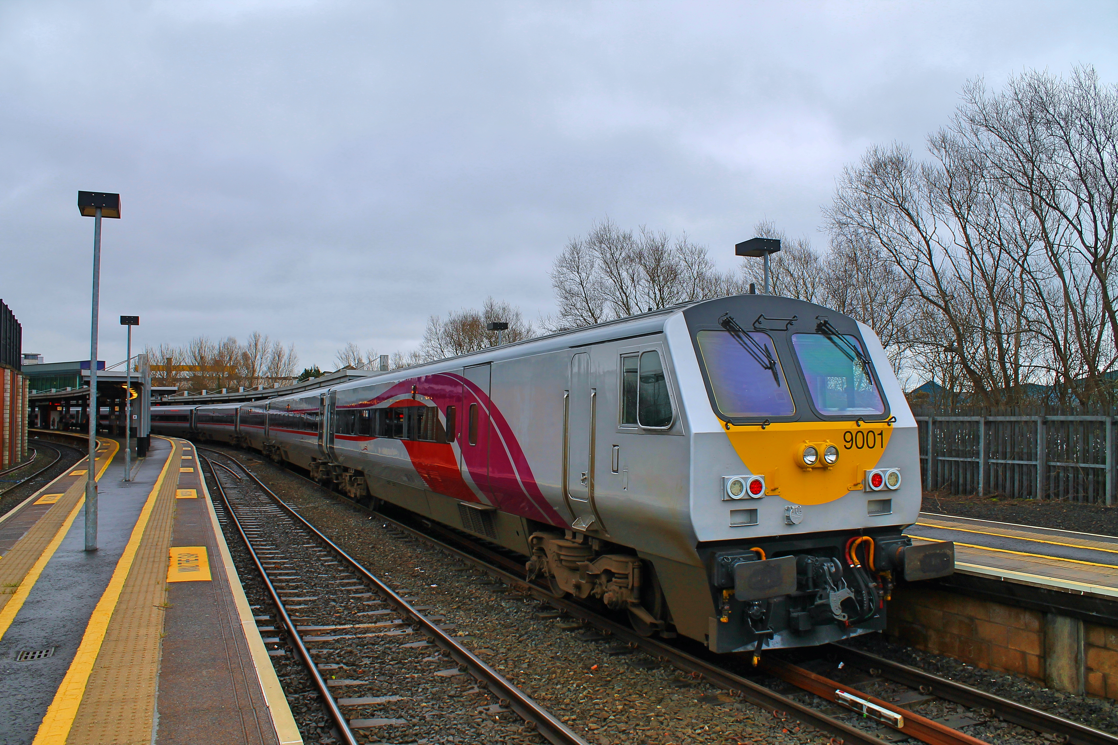 Enterprise DVT 9001 at Central.